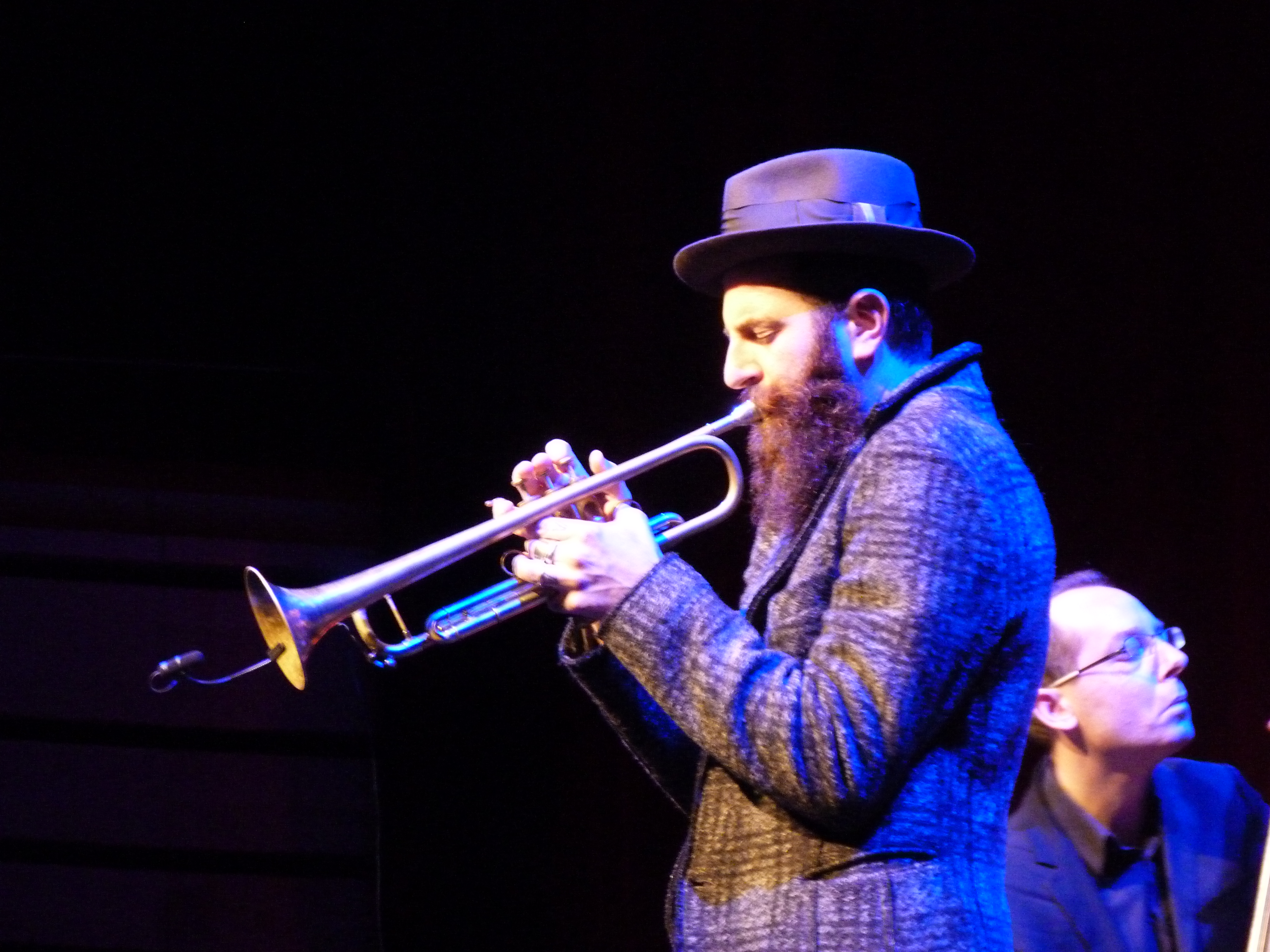 Live on the 22nd of October, 2015. WOMEX 15. Budapest, Hungary.